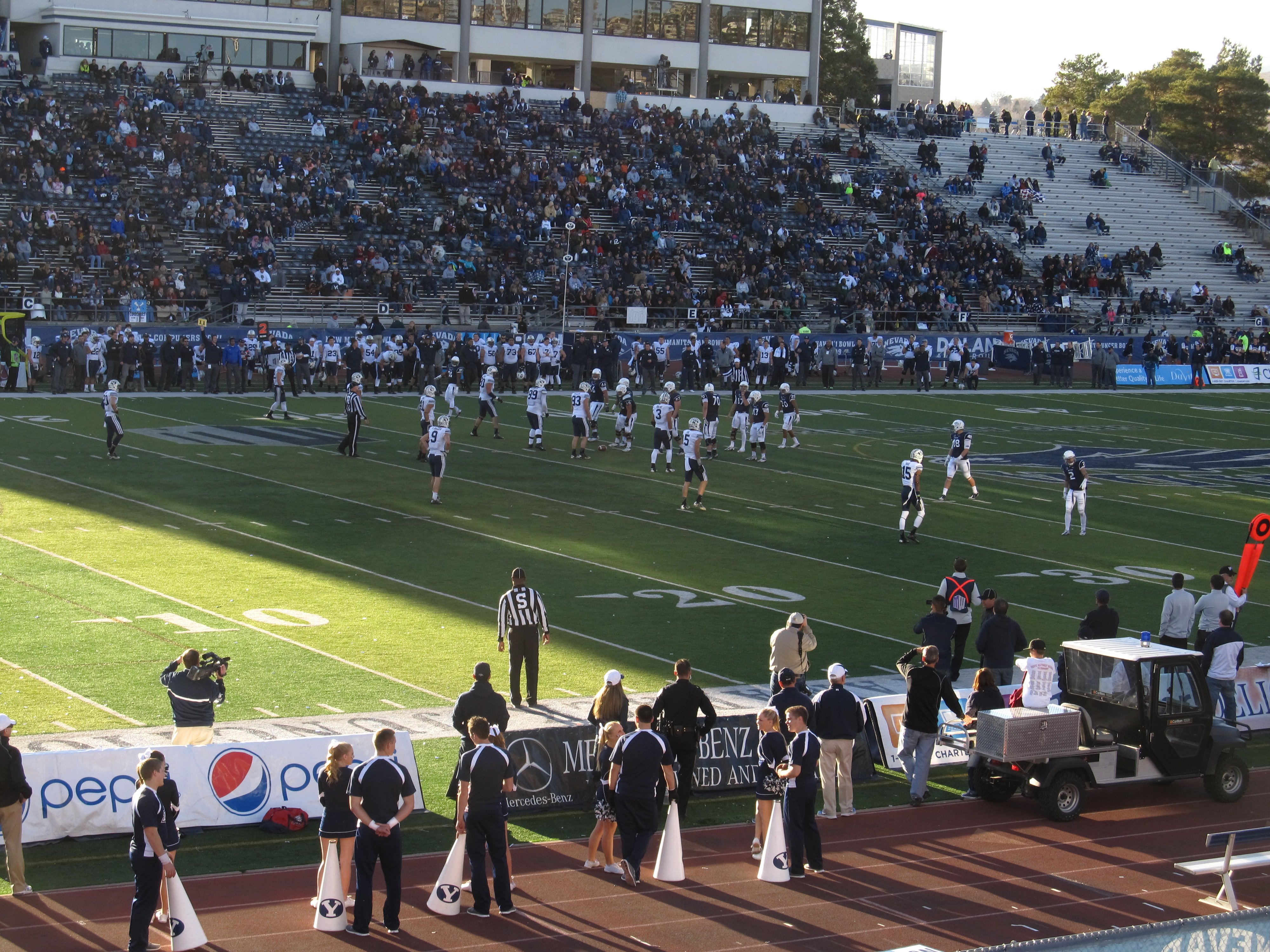 BYU Cougars 28, Nevada Wolf Pack 23